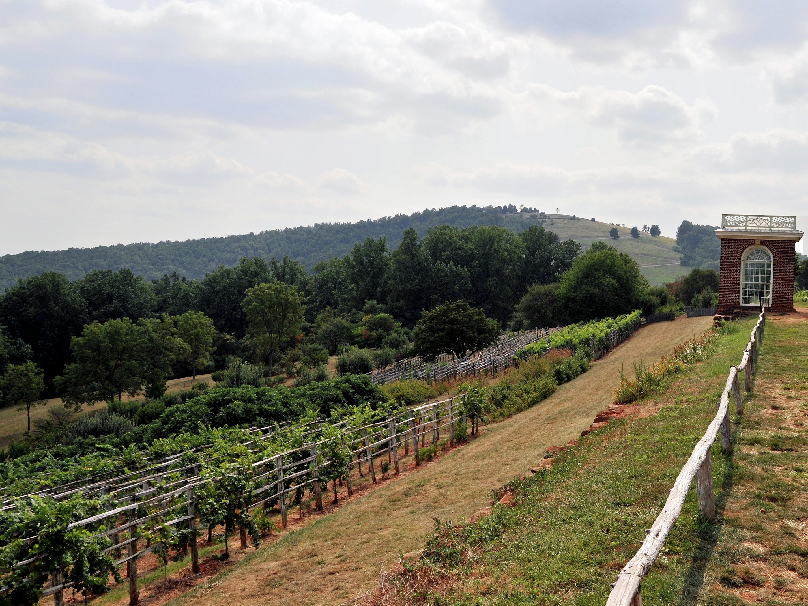 The Northeast Vineyard and Garden Pavilion at Monticello. In his day, Jefferson, a fan of European wines, had great difficulty cultivating the Vitis Vinifera grape species at Monticello. Native grapes were more easily grown but lacked quality. Today, with more modern methods of cultivation, this area in North Central Virginia produces a better quality of wine. Jefferson, however, was considered the most influential viticulturist of his time.